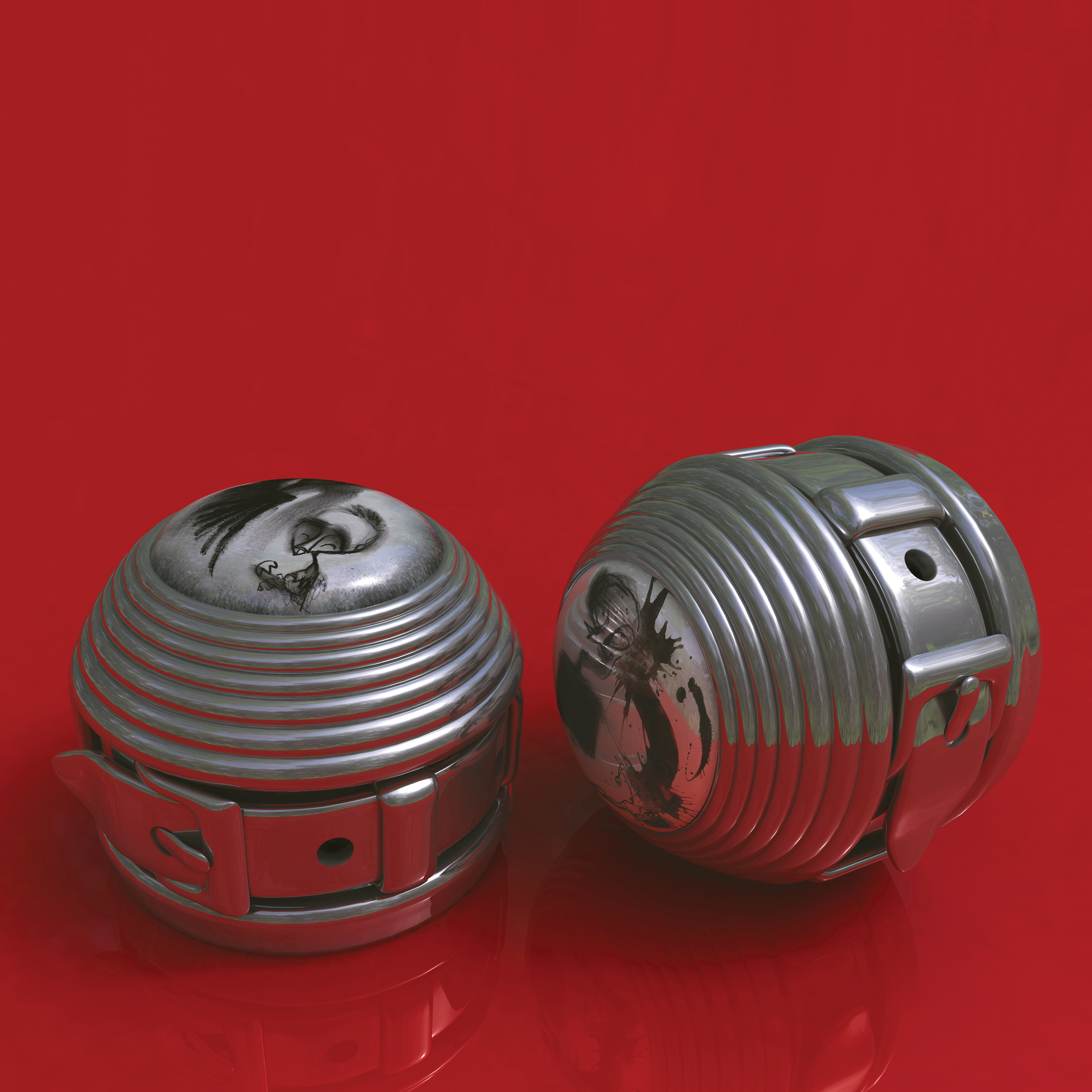 Two sculptures by Italian contemporary artist Enrico Corte.